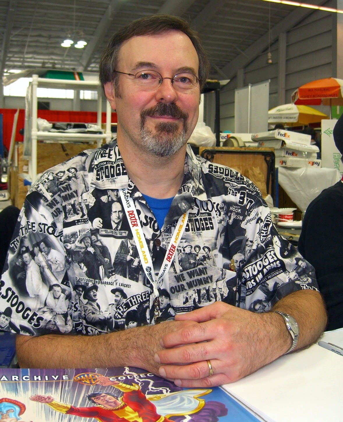 Comics creator Jerry Ordway on Day 4 of the 2012 New York Comic Con, Sunday October 14, 2012 at the Jacob K. Javits Convention Center in Manhattan. This photo was created by Luigi Novi. It is not in the public domain, and use of this file outside of the licensing terms is a copyright violation.